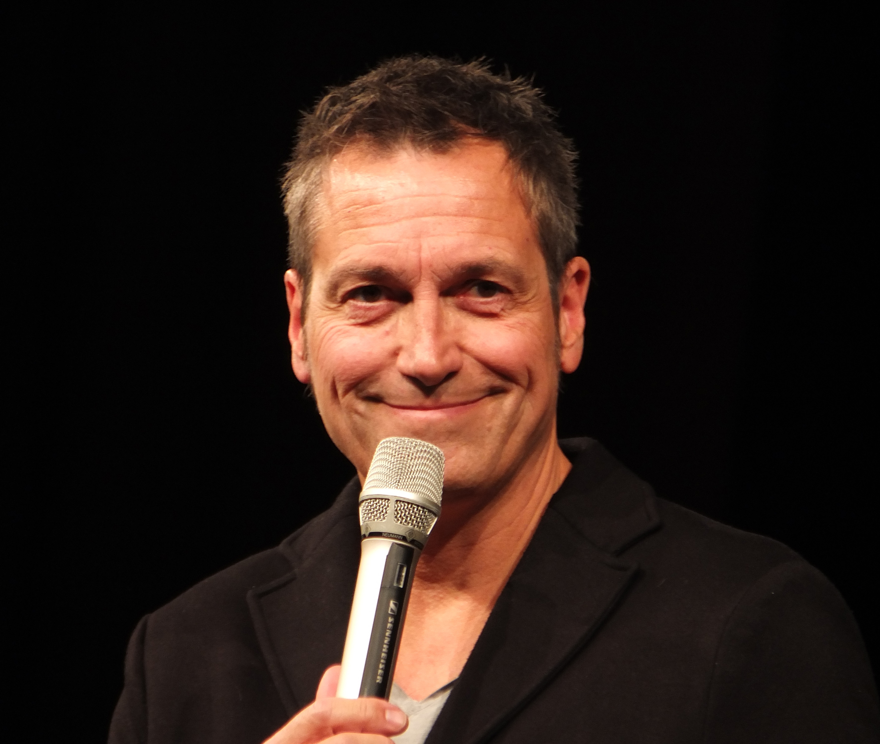 Carbaret artist Dieter Nuhr in Dortmund